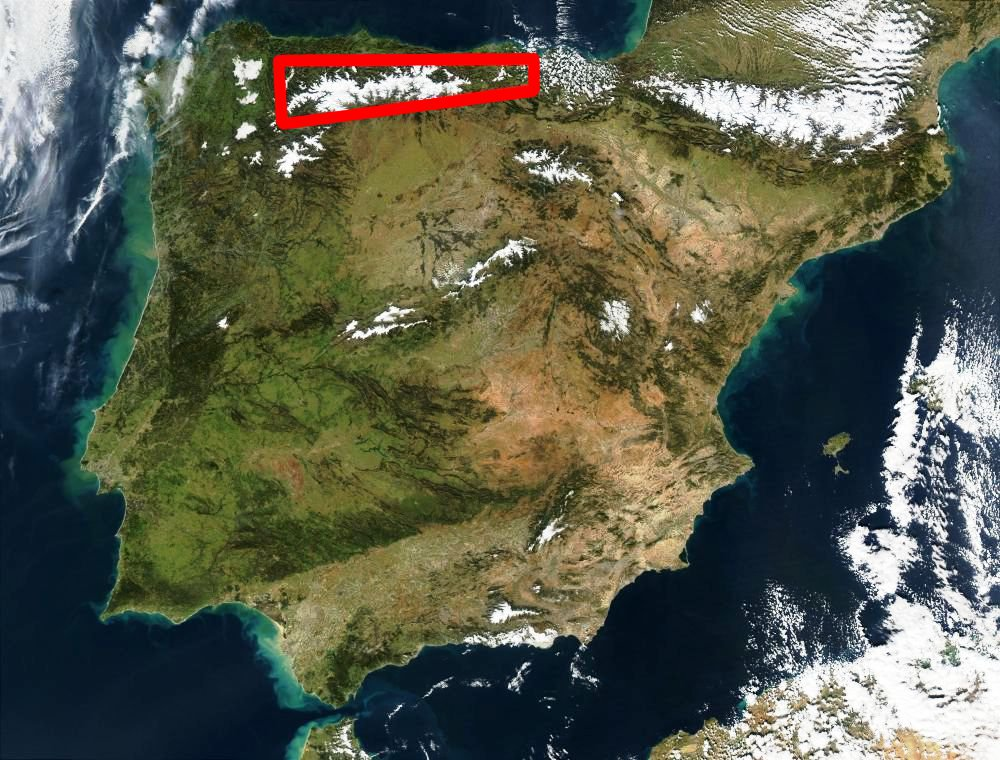 The red box indicates the Cantabrian Mountain Range. Satellite image of Spain in January 2003. Author: Date: Agosto de 2005